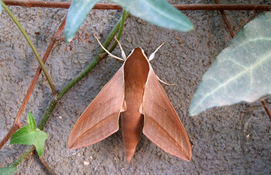 Theretra alecto - רפרף הגפן